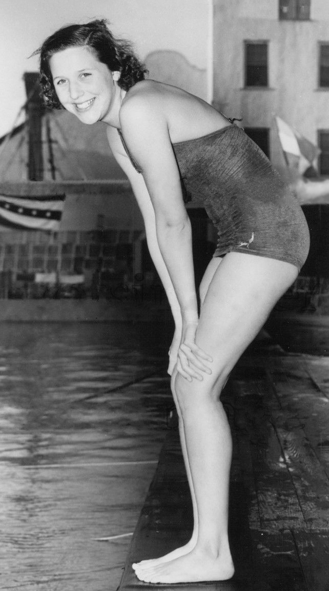 Swimmer Nancy Merki in Swimsuit by Pool Press Photo